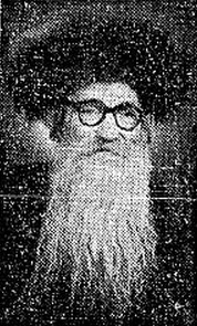 Israeli artists Yitzchak Bak (1896–1976).